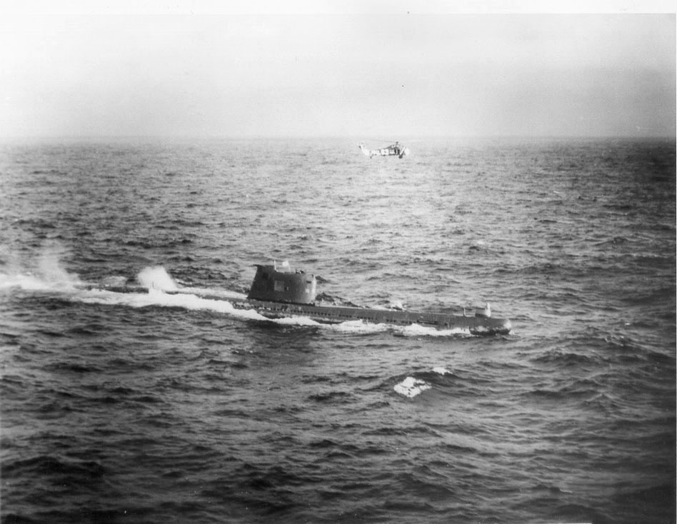 Soviet submarine B-59, forced to the surface by U.S. Naval forces in the Caribbean near Cuba. U.S. National Archives, Still Pictures Branch, Record Group 428, Item 428-N-711200.